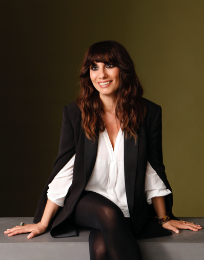 Paola Maugeri's photo